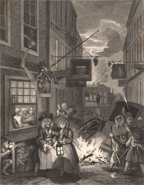 Tyler escourting the Master - print by William Hogarth titled Night